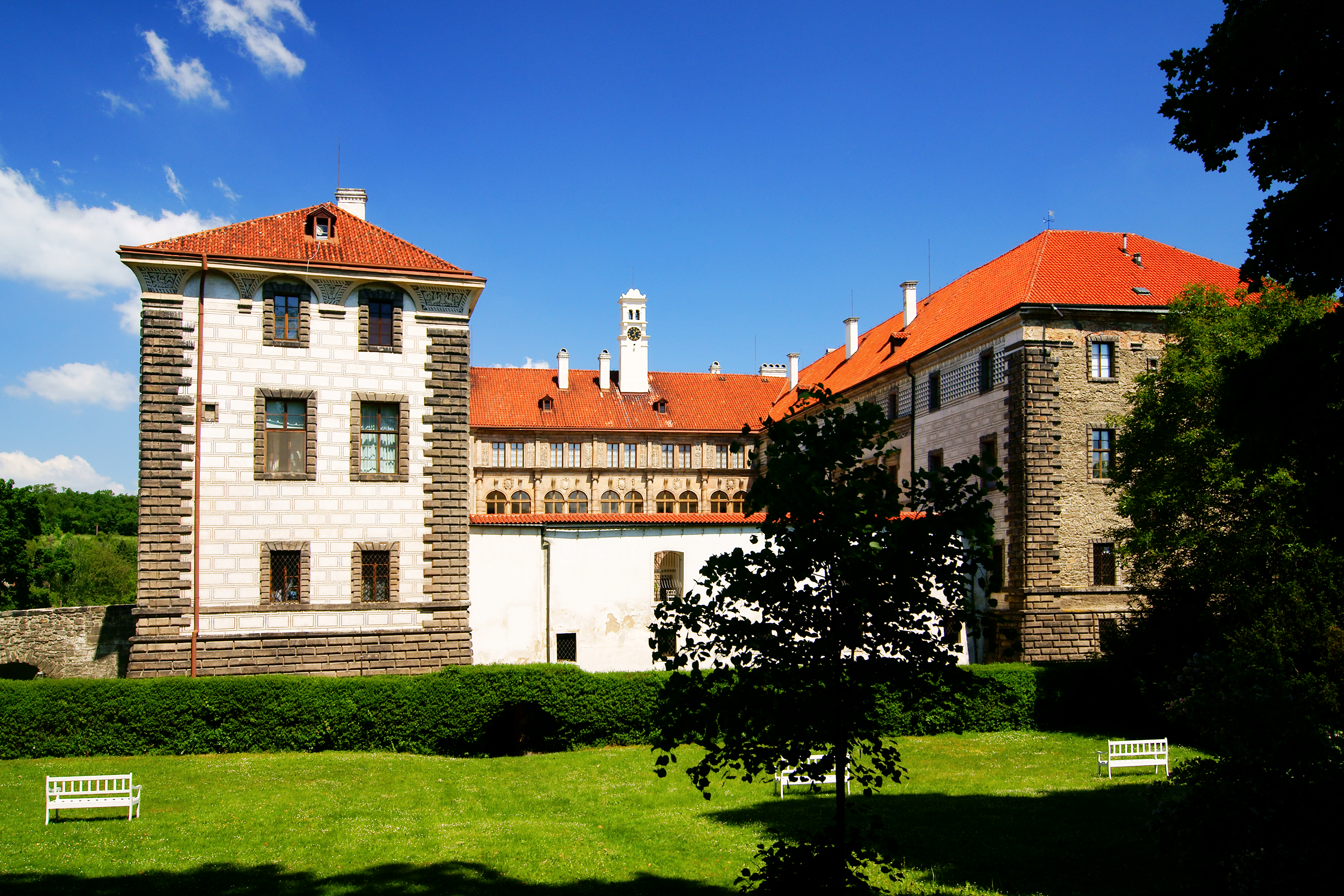 Nelahozeves (Czech republic), castle.